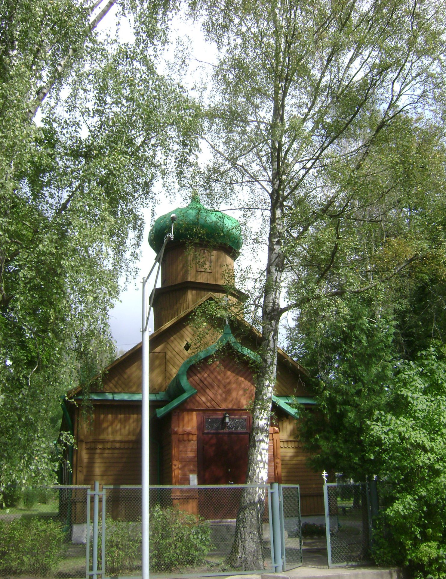 Lithuania. Vilnius. Naujoji Vilnia, Orthodox Church of St. Peter and St. Paul